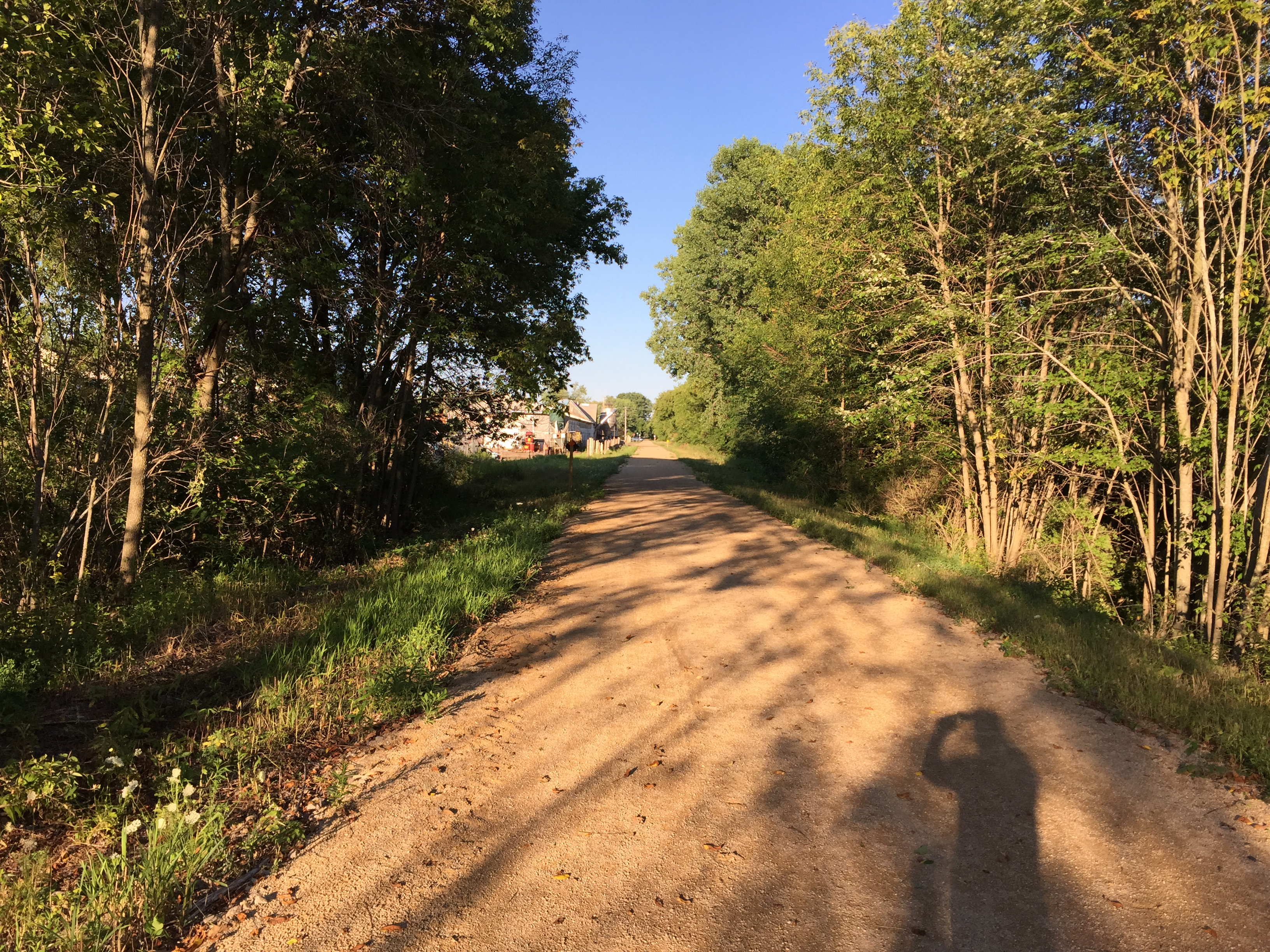 Trail near Shiocton